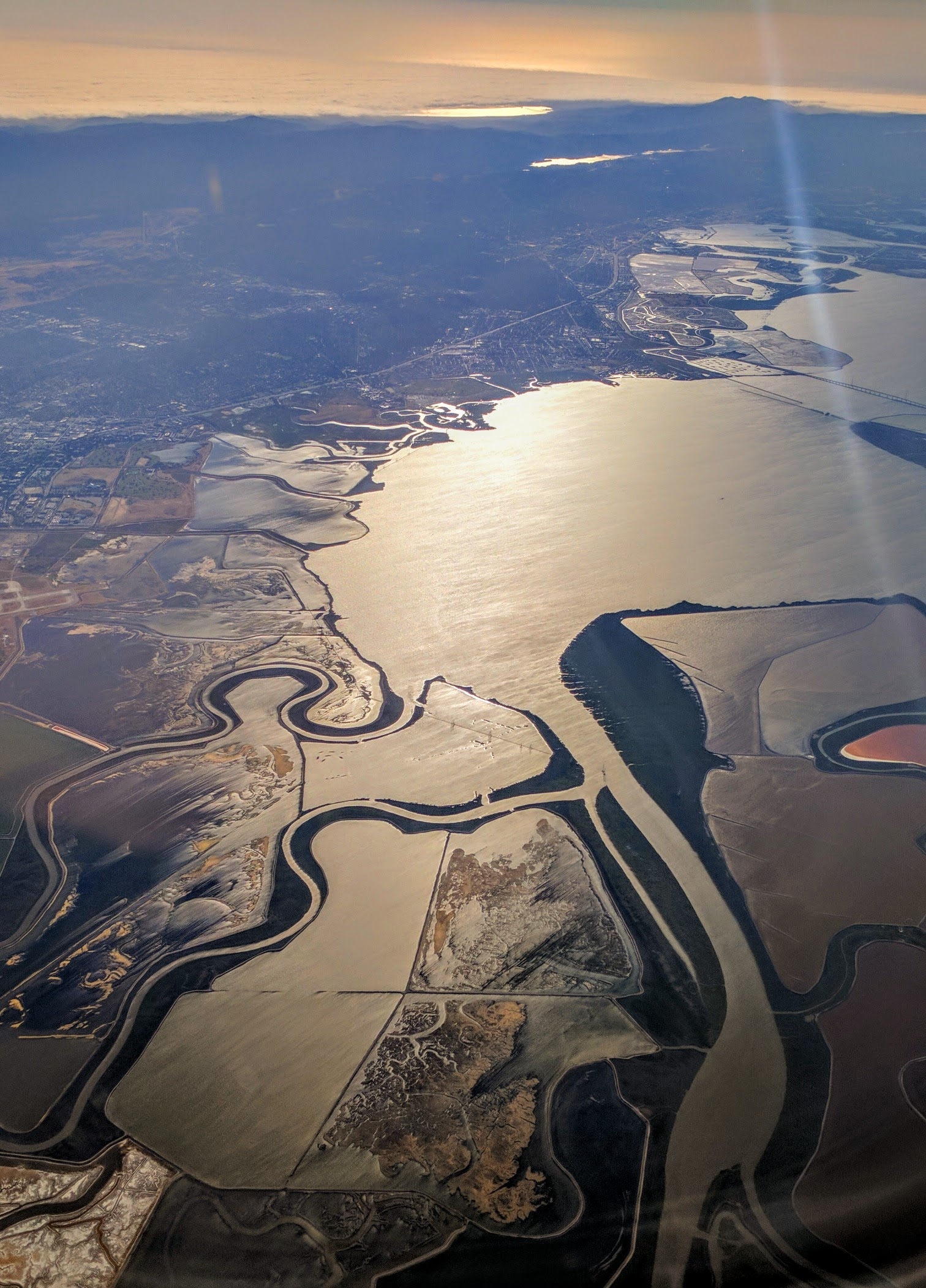 Coyote Creek where it flows into the south San Franciso Bay, with the Guadalupe River joining it, and the Guadalupe Slough entering just to the west (left).